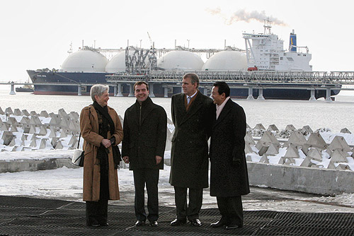 YUZHNO-SAKHALINSK. With Japanese Prime Minister Taro Aso, Prince Andrew, Duke of York, and Minister of Economic Affairs of The Netherlands Maria van der Hoeven.